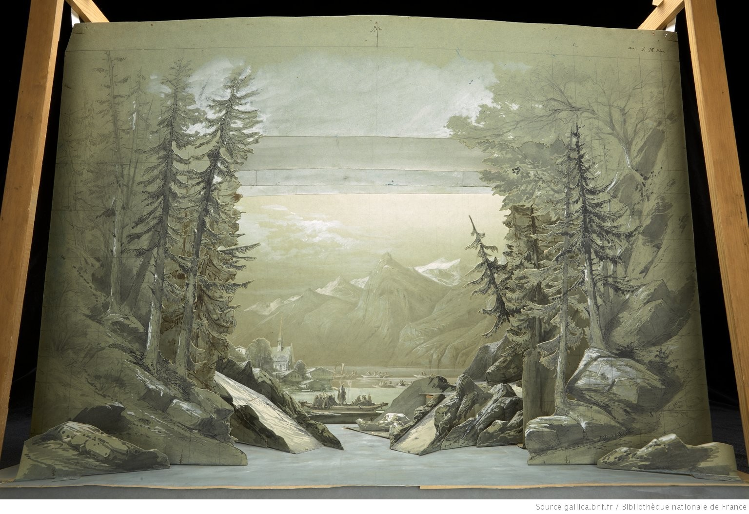 set design for Act Two Guillaume Tell, Rossini